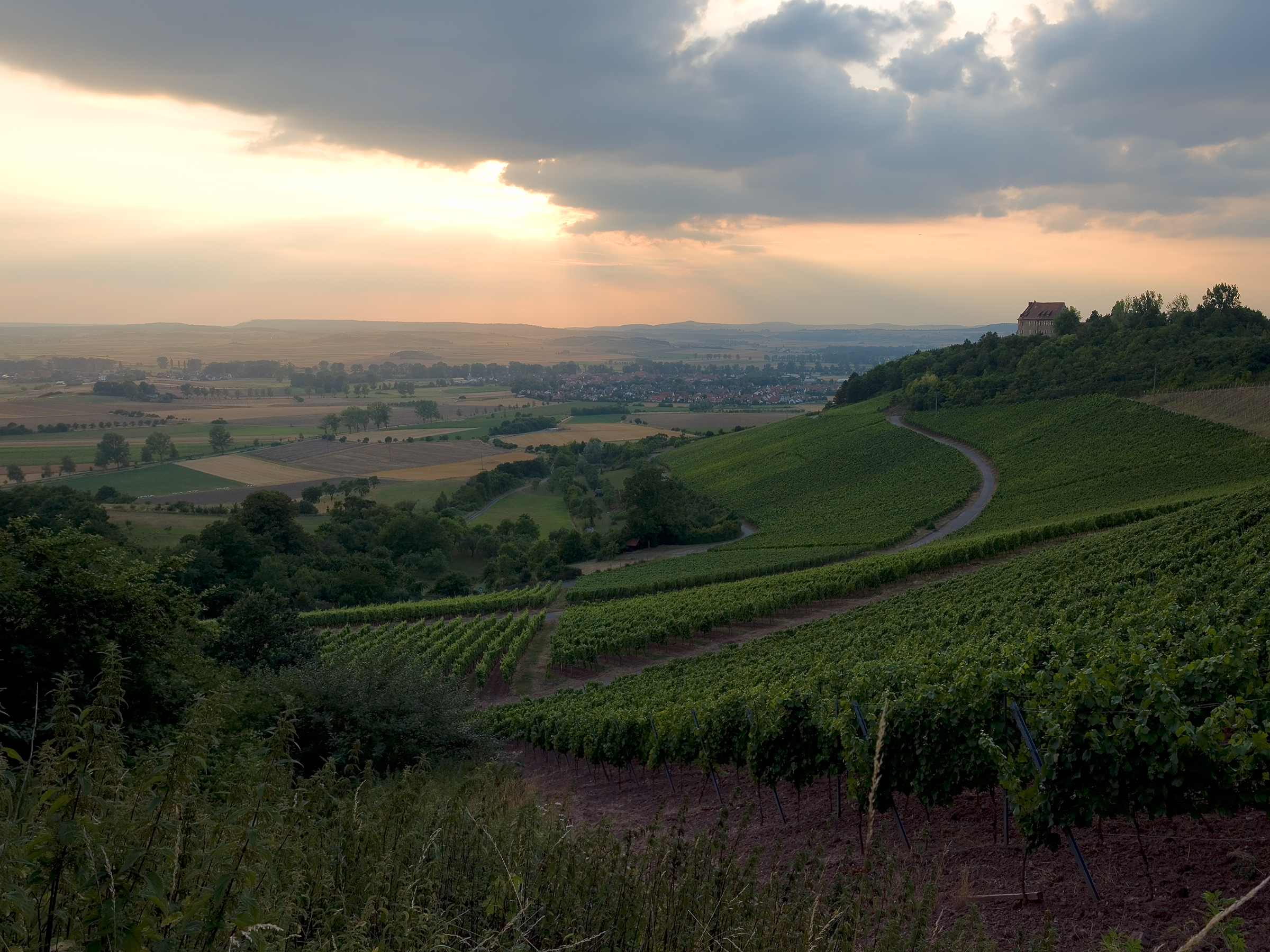 Vineyard near castle Hoheneck with Ipsheim in the background, Bavaria, Germany